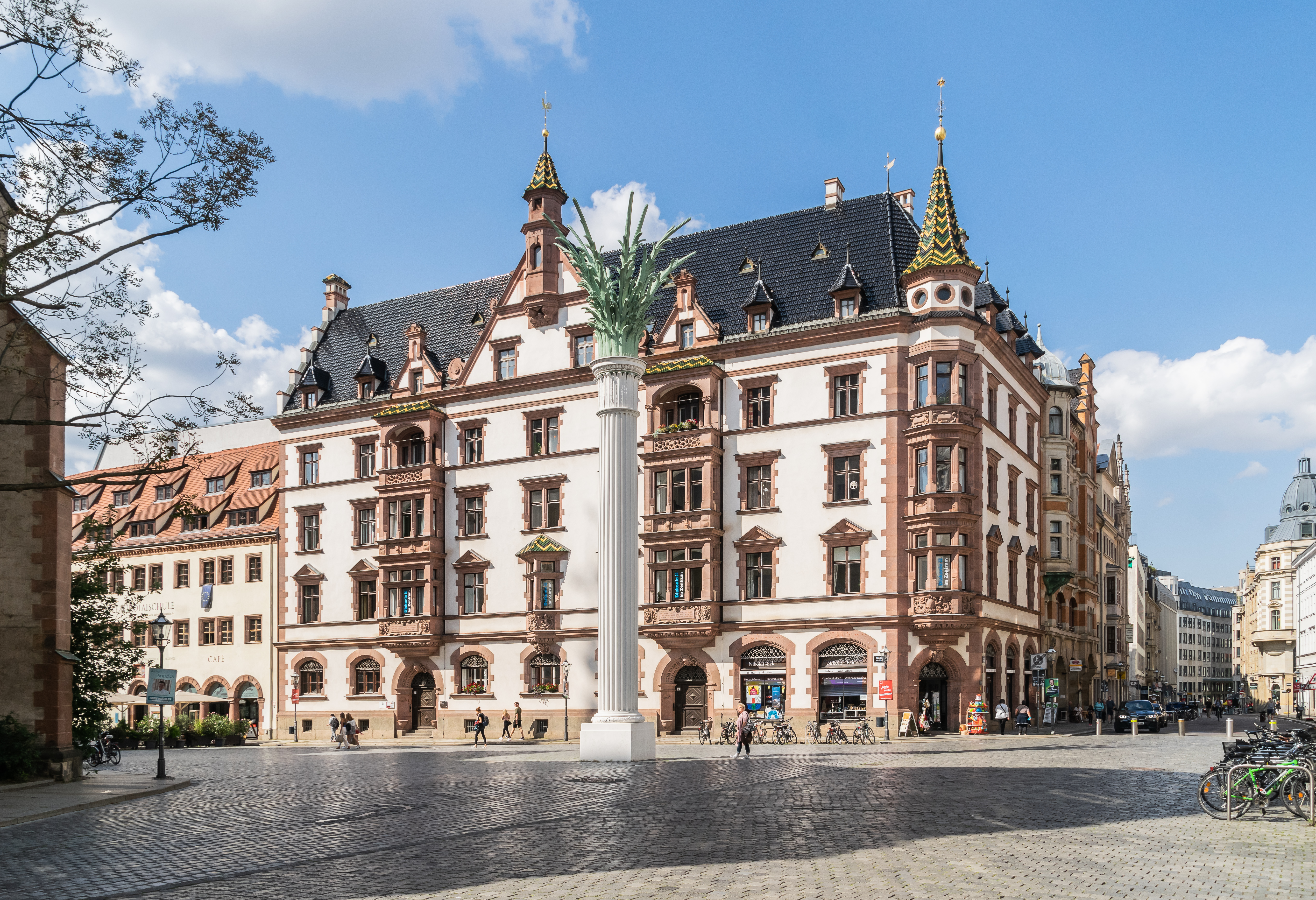 Predigerhaus at Nikolaikirchhof 3 in Leipzig, Saxony, Germany